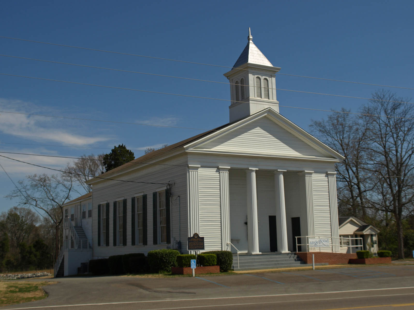 Robinson Springs United Methodist Church in Millbrook, Alabama, listed on the National Register of Historic Places.